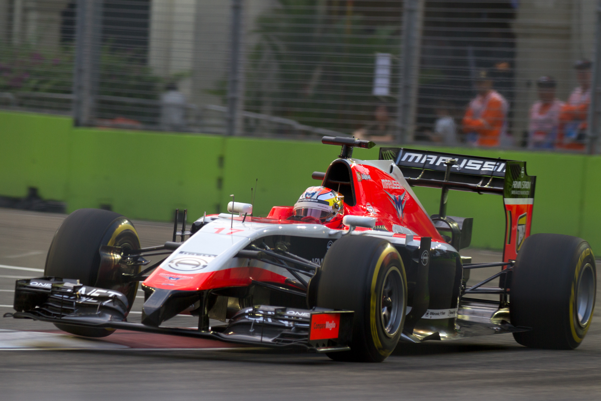 Formula One 2014 Rd.14 Singapore GP: Jules Bianchi (Marussia)